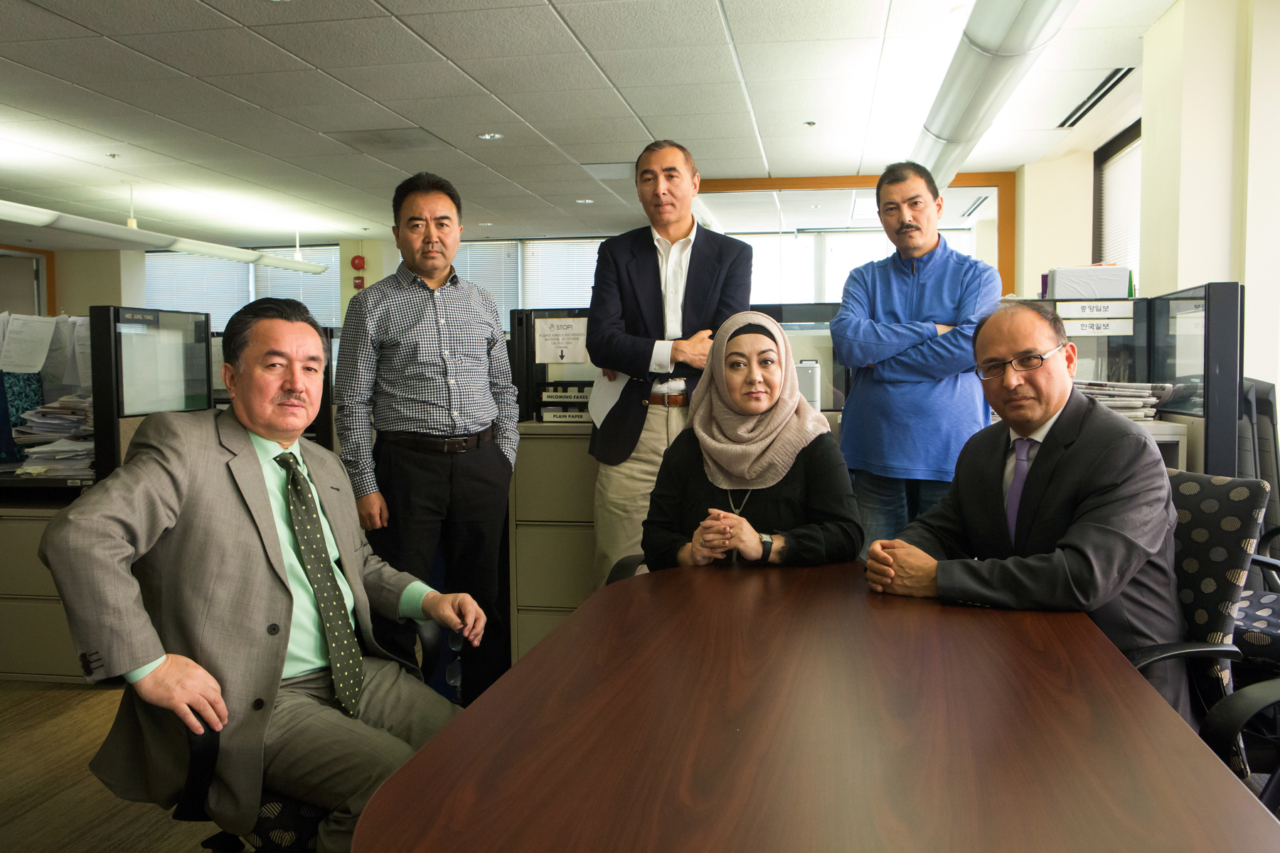 Radio Free Asia Journalists at RFA. (Left to Right) Shohret Hoshur, Eset Sulaiman, Mamatjan Juma, Gulchehra Hoja, Kurban Niyaz, Jilil Kashgary.